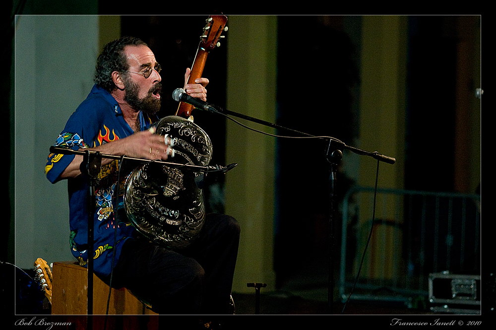 Bob Brozman at Musicastrada, 2010